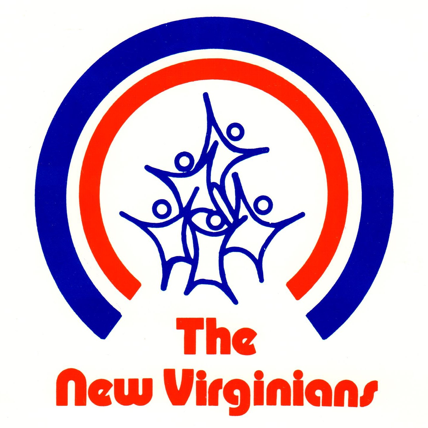 celebration